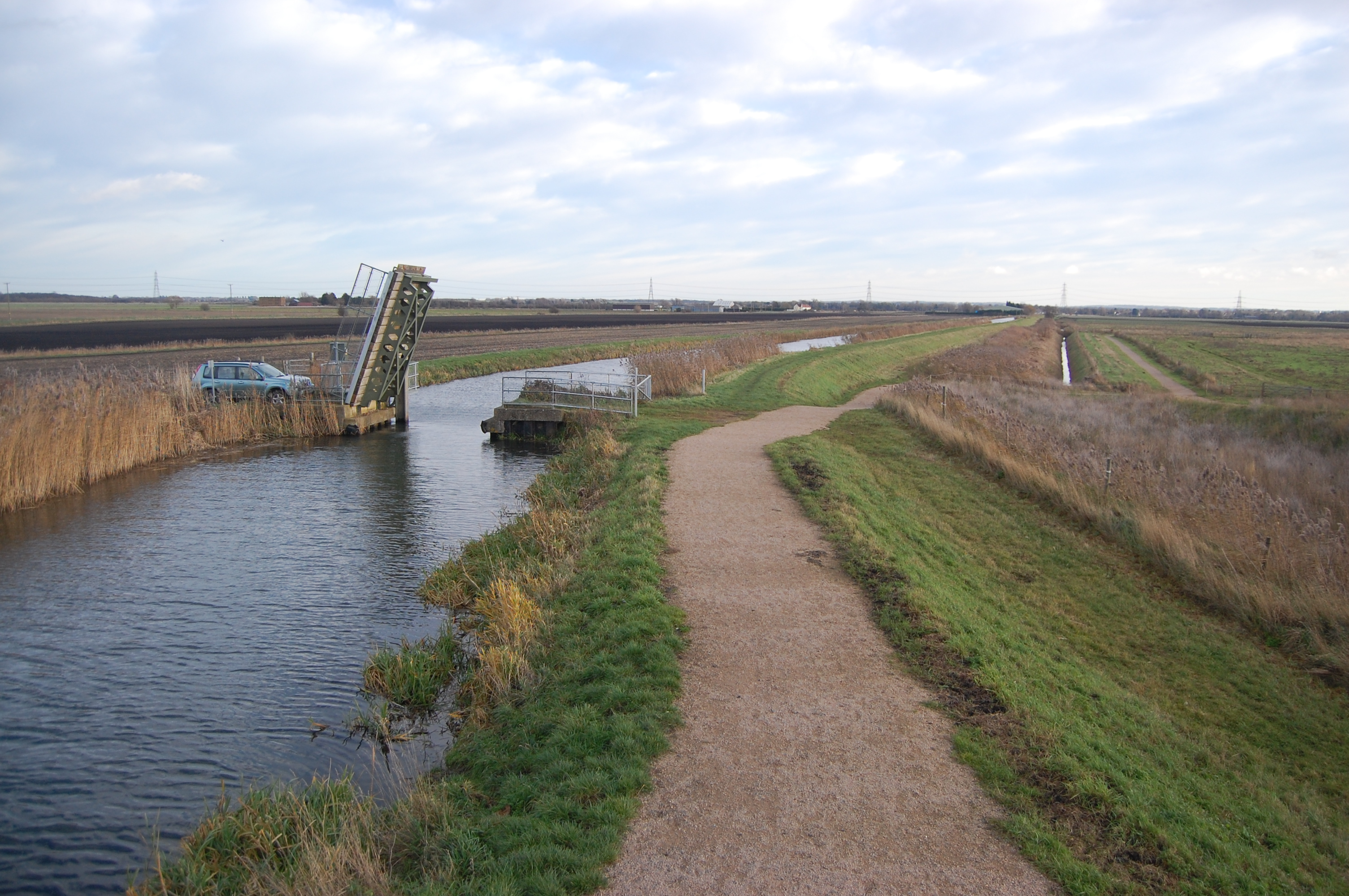 'Cockup Bridge', a lifting bridge over Burwell Lode at Wicken Fen, Cambridgeshire, England.